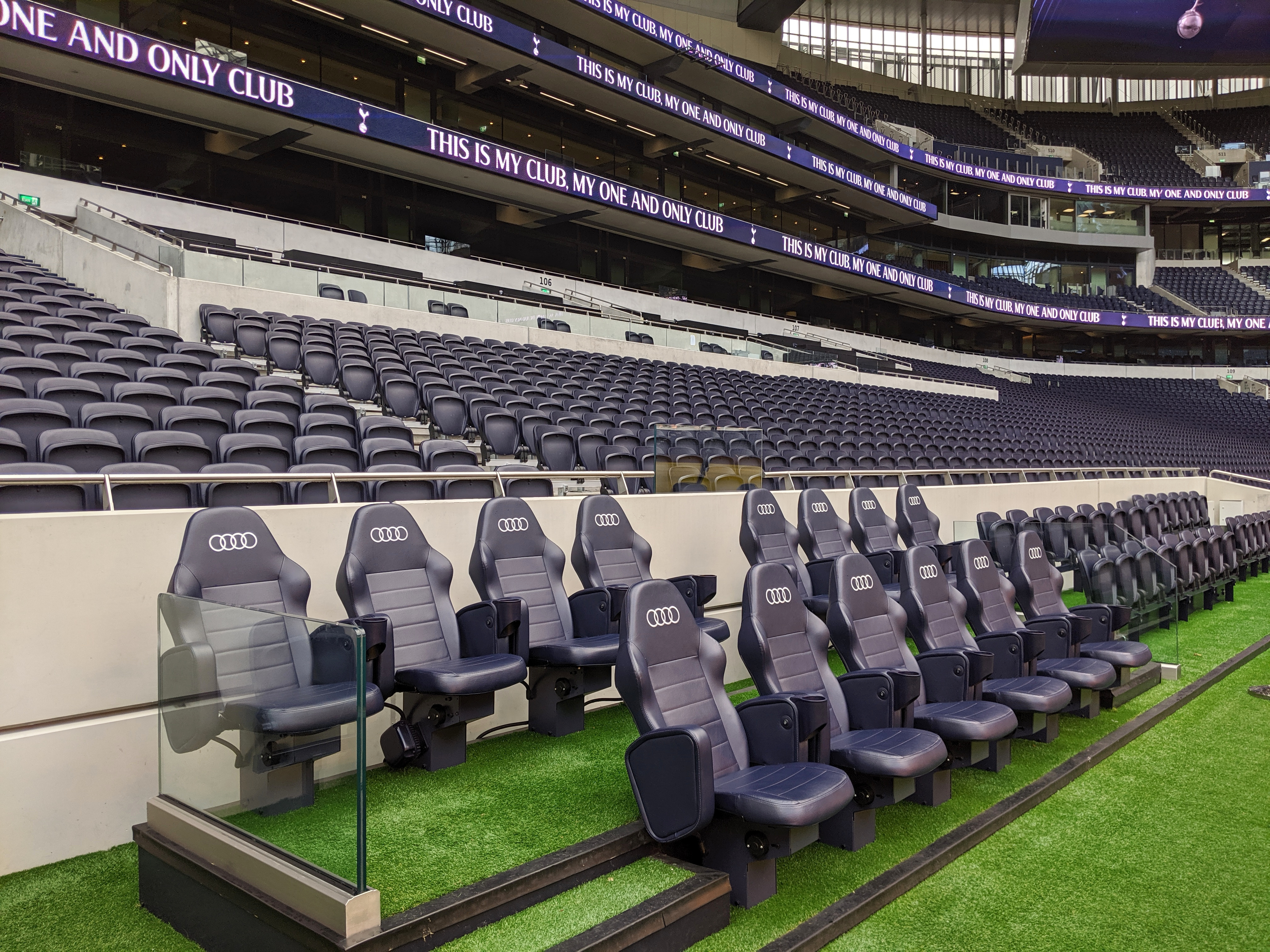 Dugout for the home team on the West Stand at Tottenham Hotspur Stadium